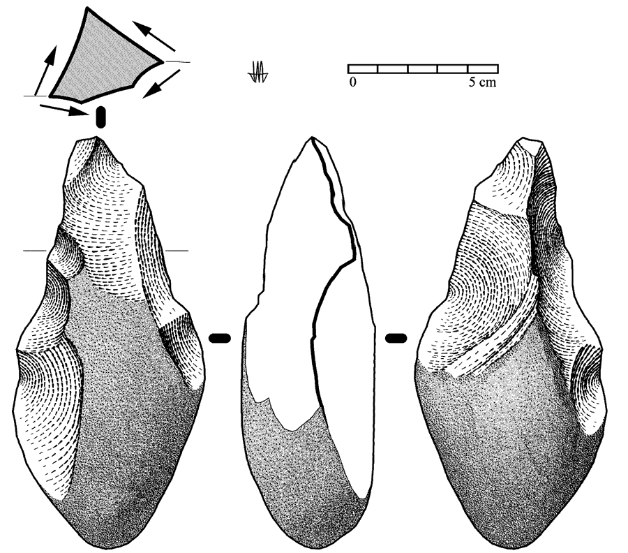 Acheulean trihedral pick that proceeds from a superficial site in the Zamora province (Spain), in the valley of Douro river.